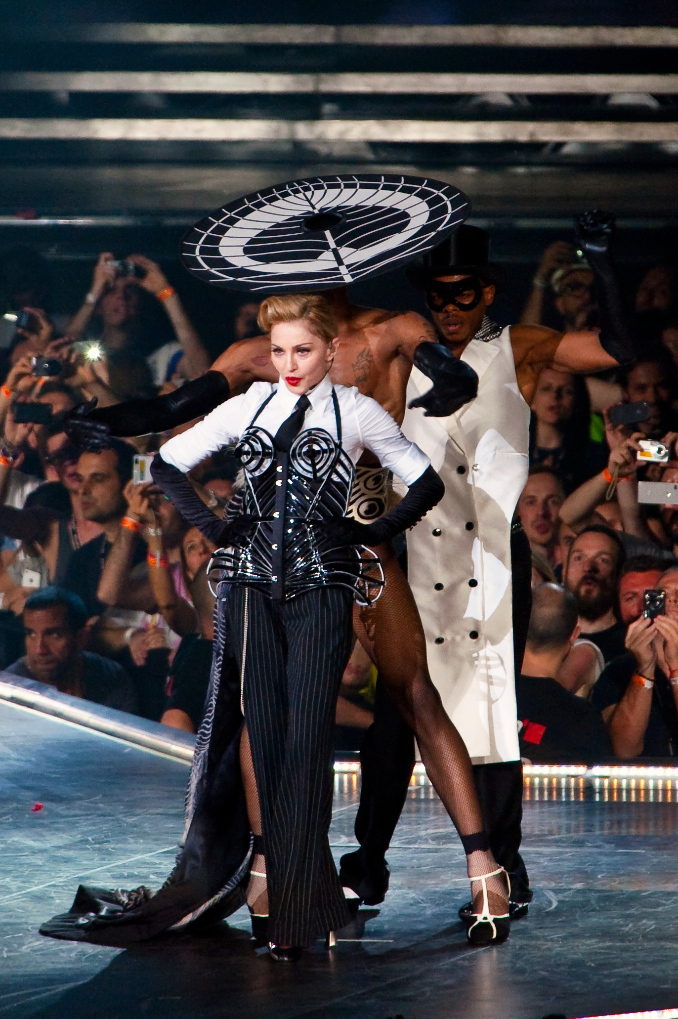 Madonna MDNA Concert Live _D7C31582